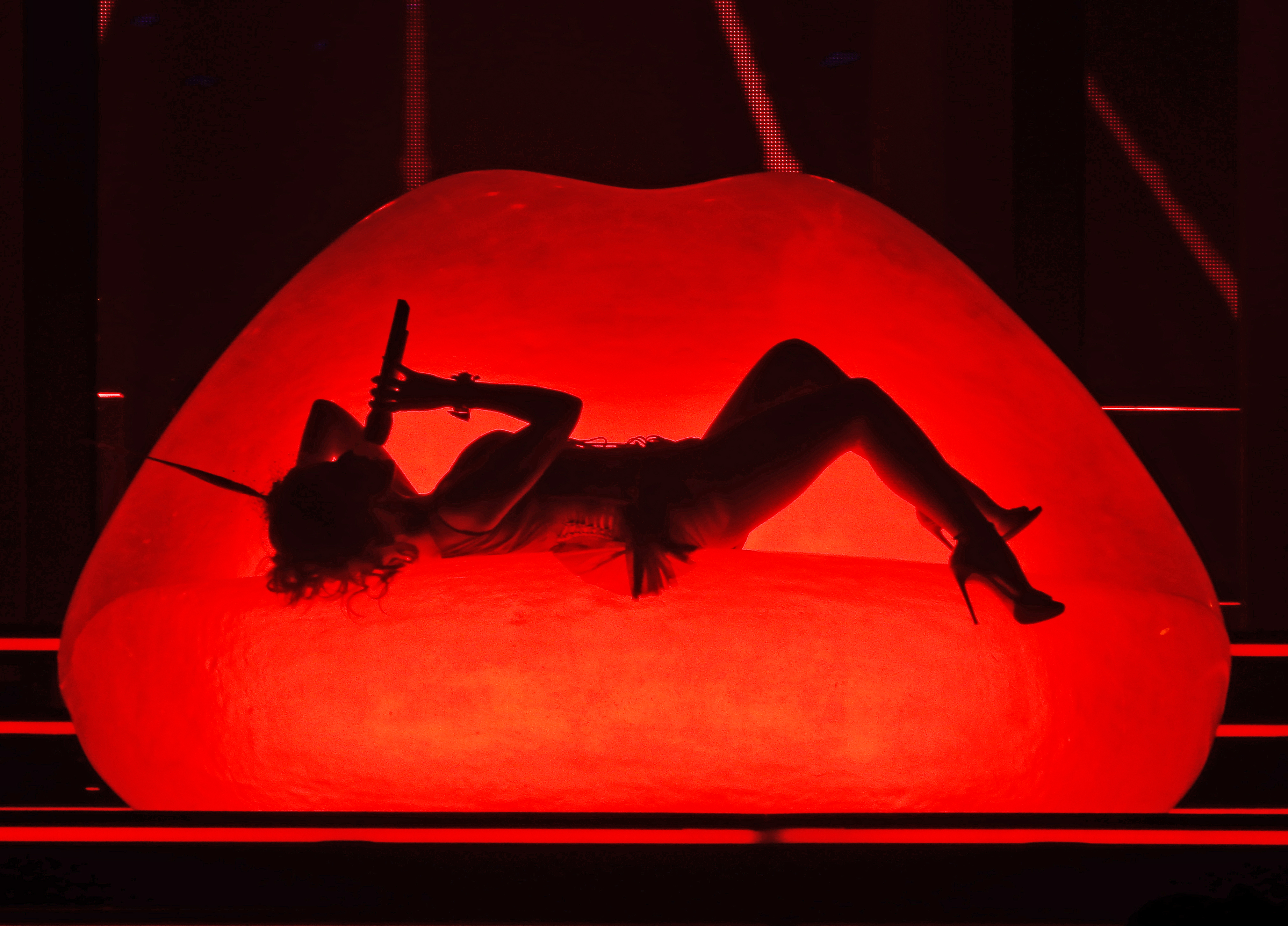 Kylie Minogue - Kiss Me Once Tour - Sheffield - 13.11.14. - 006 (performing Les Sex)